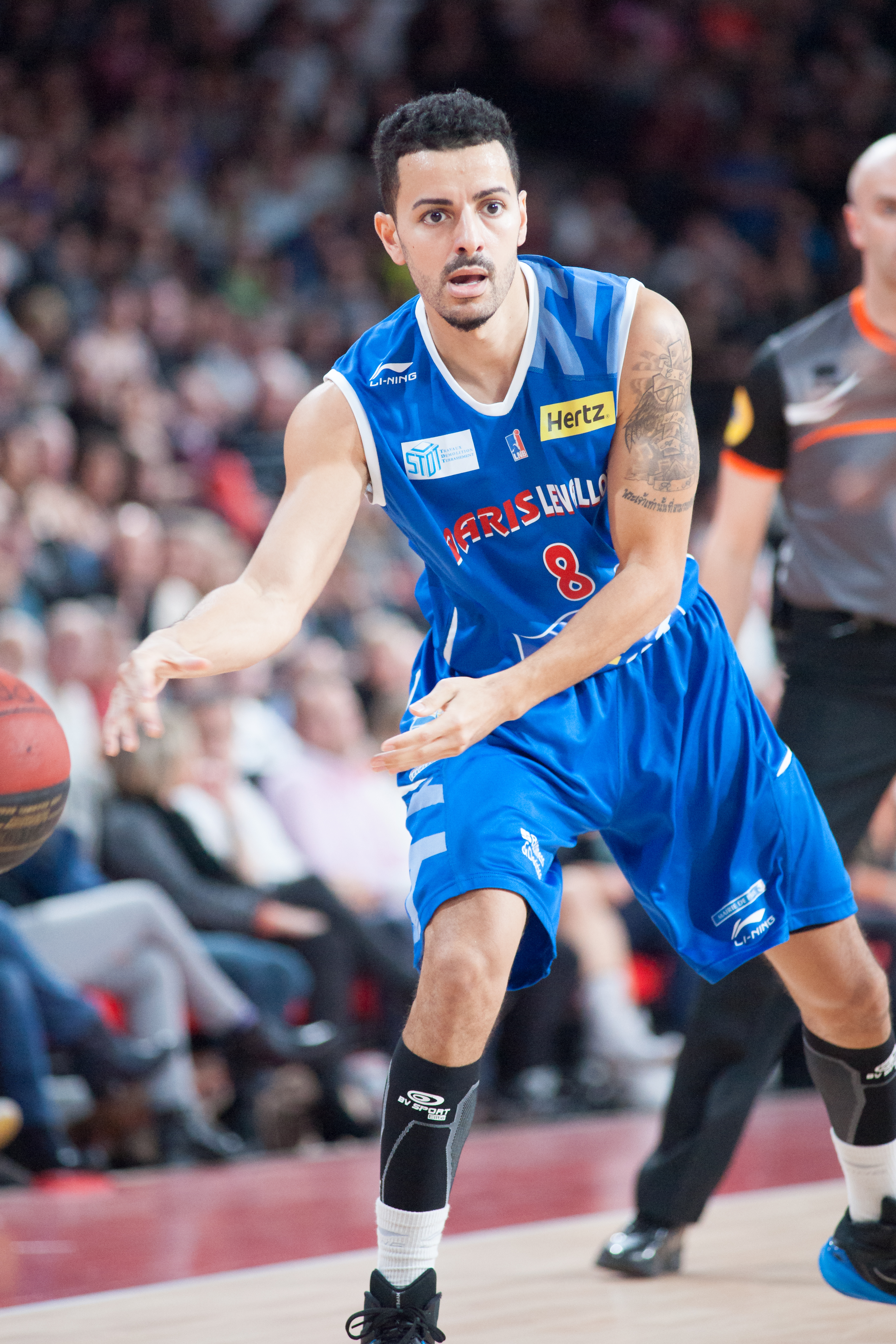 Bourg-en-Bresse vs. Paris-Levallois, 15th November 2014